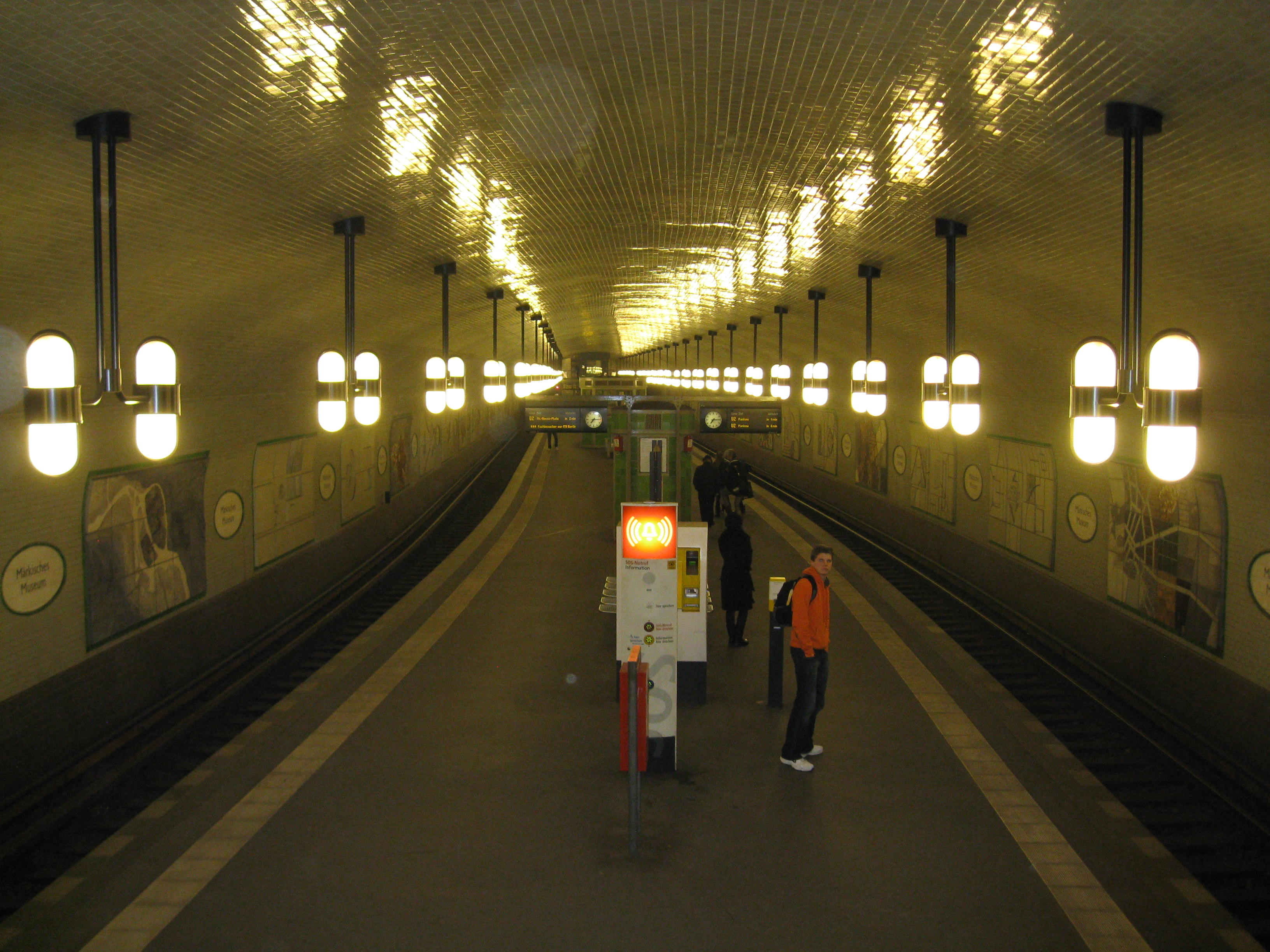 Maerkisches Museum UBahn station in Berlin